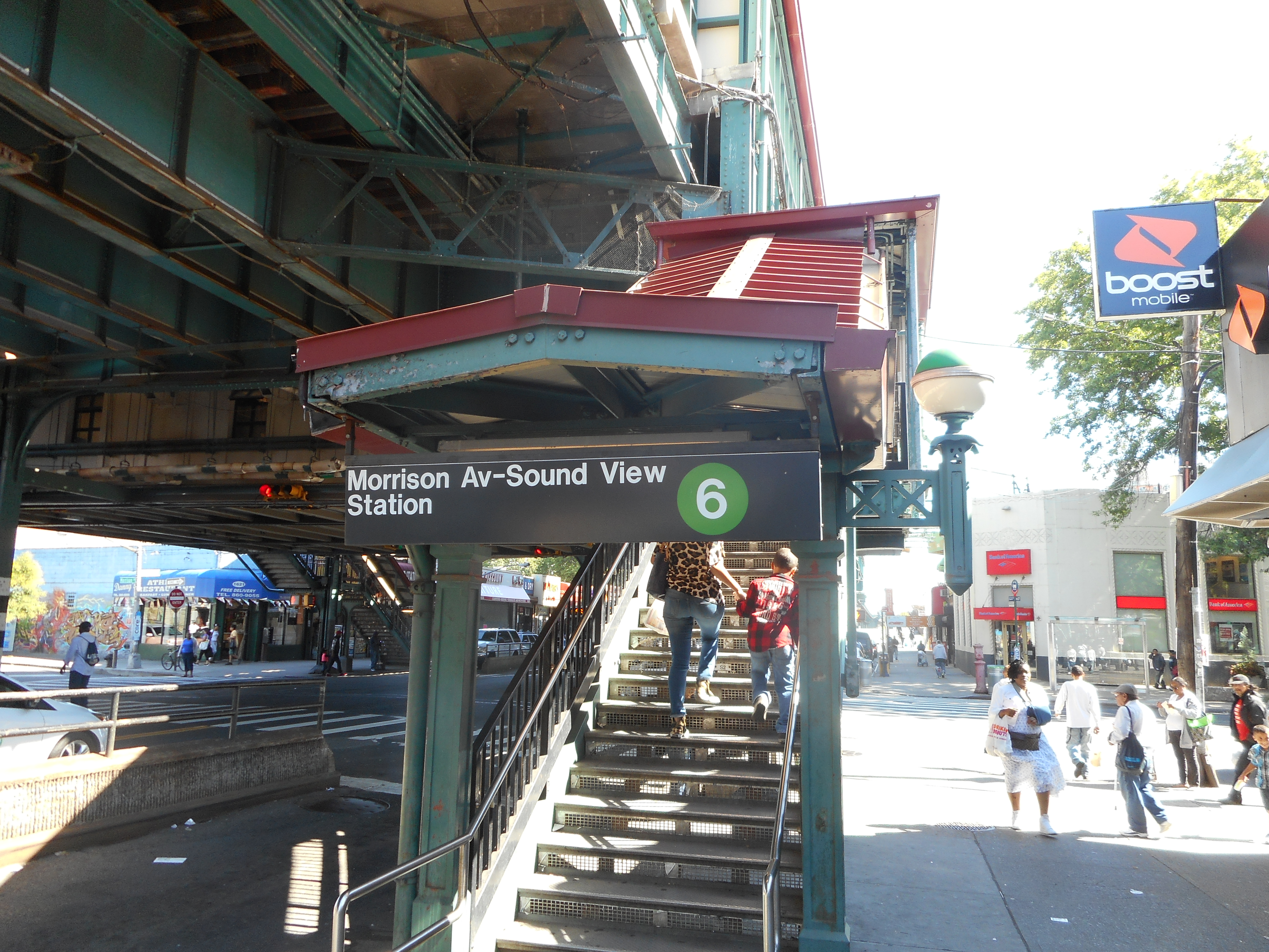 Southwest street entrance at the Morrison Avenue – Soundview (IRT Pelham Line) in the Soundview section of The Bronx, New York City. The sign on top claims it's the southeast entrance, though.